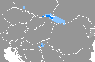 As a majority language As a minority language Source: File:Zakarpatska2001rusyn.PNG